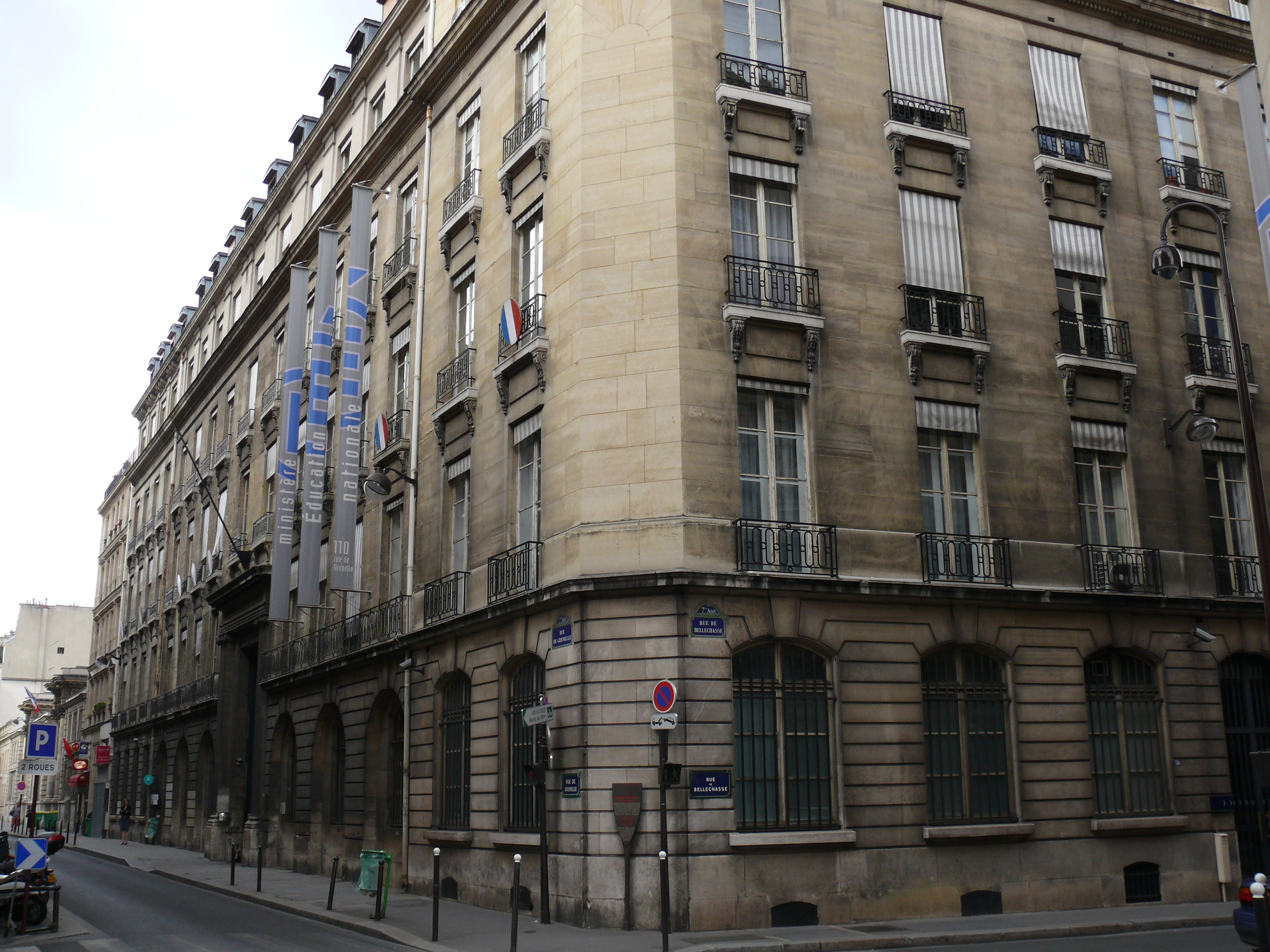 Hôtel de Rochechouart : French Ministry of National Education, 110 rue de Grenelle, in Paris (France)